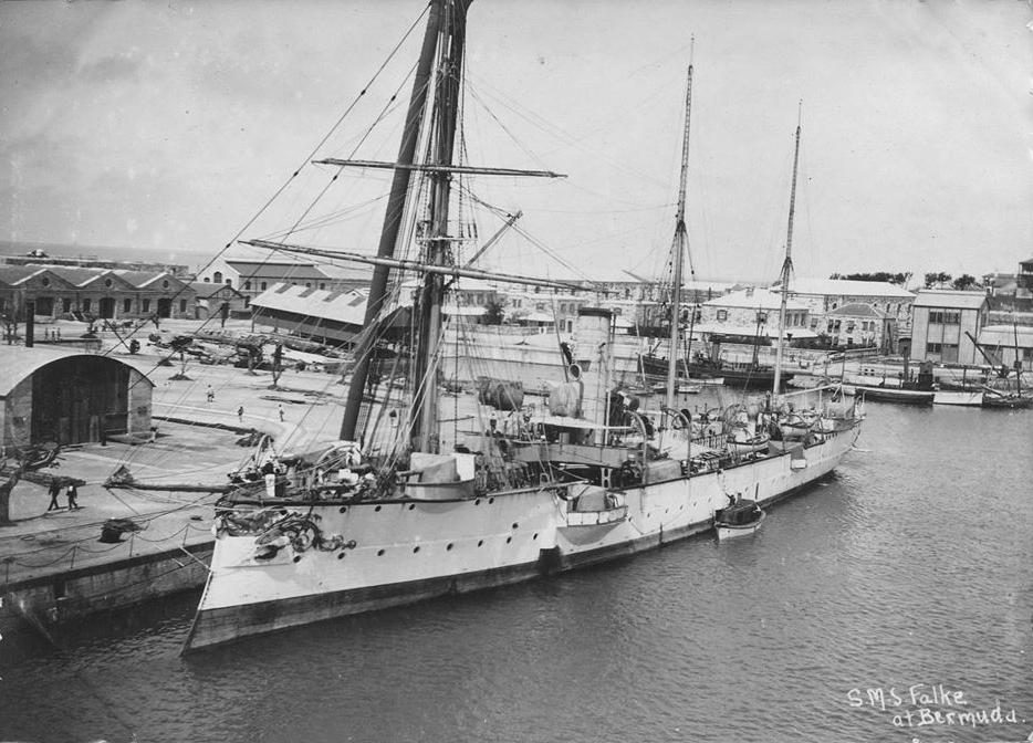 SMS Falke of the Hohenzollern Kaiserliche Marine at the Great Wharf in the North Yard of the Royal Naval Dockyard on Ireland Island, in the British colony of Bermuda in 1903.